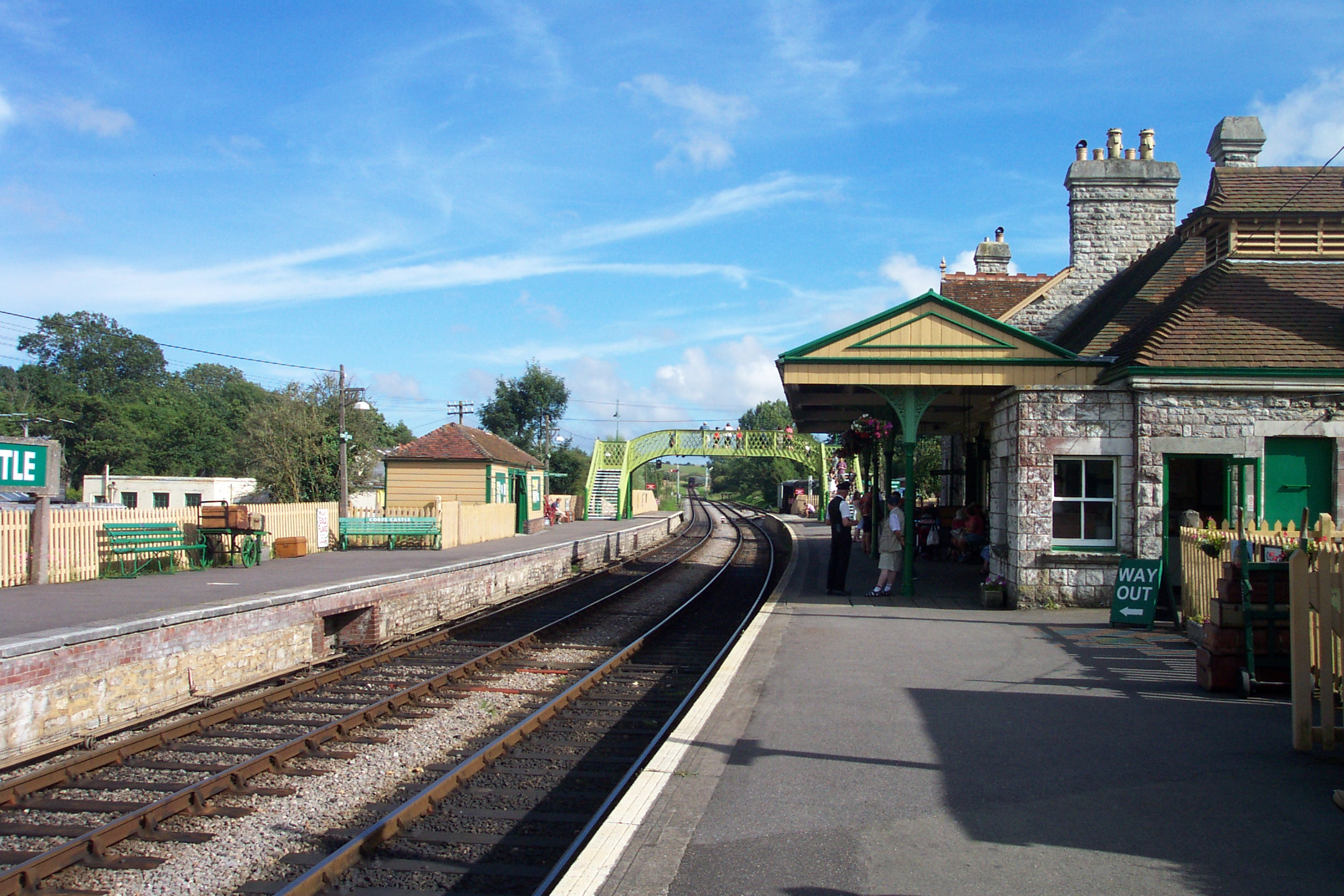 Corfe Castle railway station, looking south towards Swanage. For more information see the Wikipedia article Corfe Castle railway station.